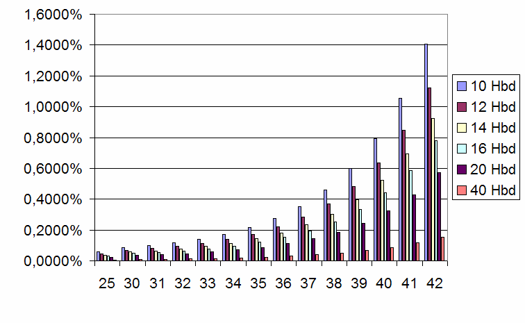 Risk for Trisomy 18 (Edwards syndrome) in relation to maternal age (X axis) and gestation (Hbd, marked by color). Data from: Snijders RJ, Sebire NJ, Nicolaides KH.Maternal age and gestational age-specific risk for chromosomal defects.Fetal Diagn Ther. 1995 Nov-Dec;10(6):356-67. PMID 8579773